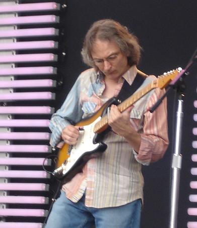 Photo taken at Crossroads Guitar Festival 2007